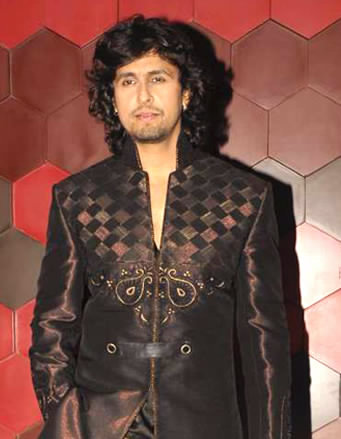 Sonu Nigam at Madhurima Nigam launches men's wear line